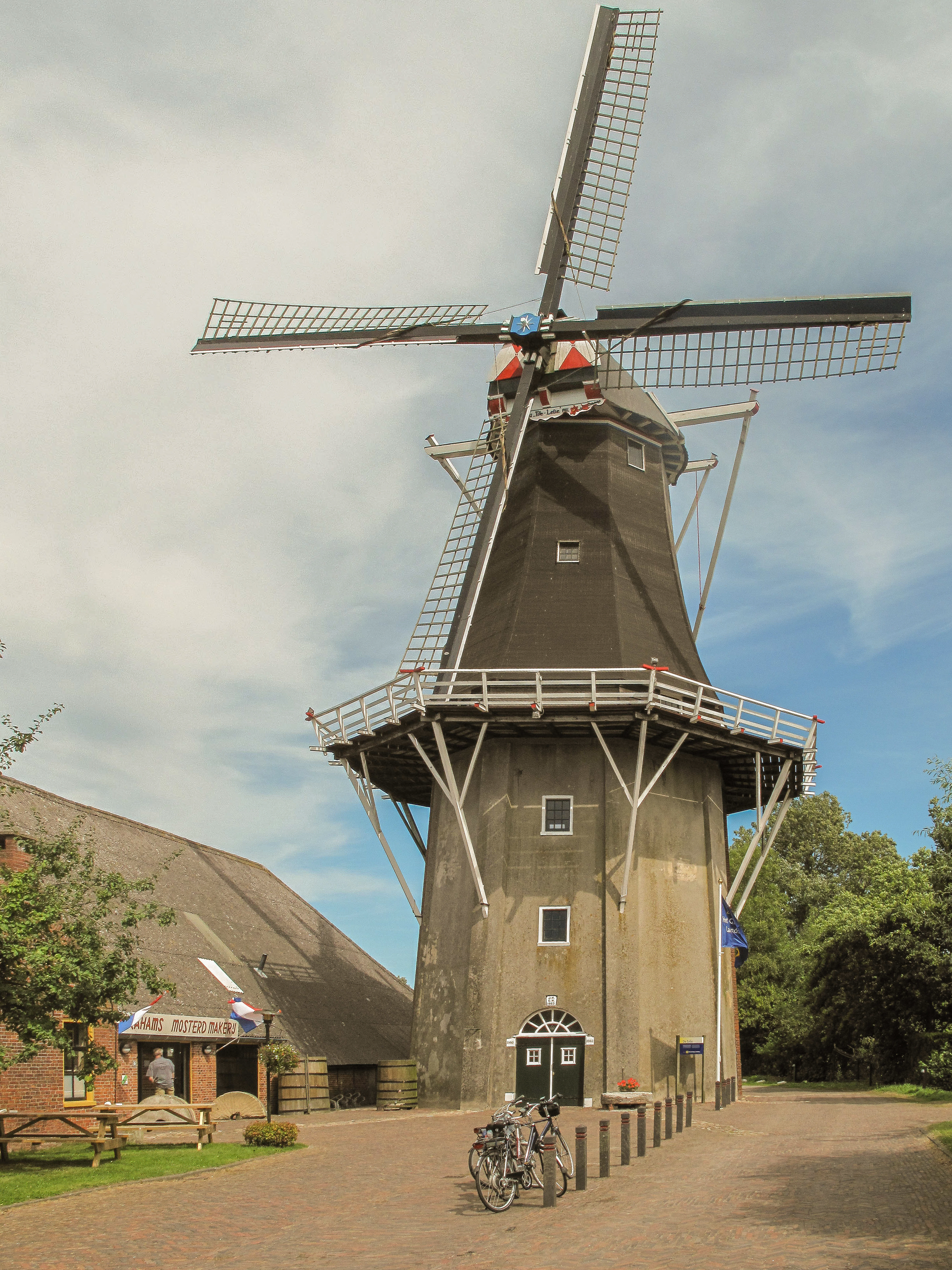 Eenrum, windmill: windmolen de Lelie